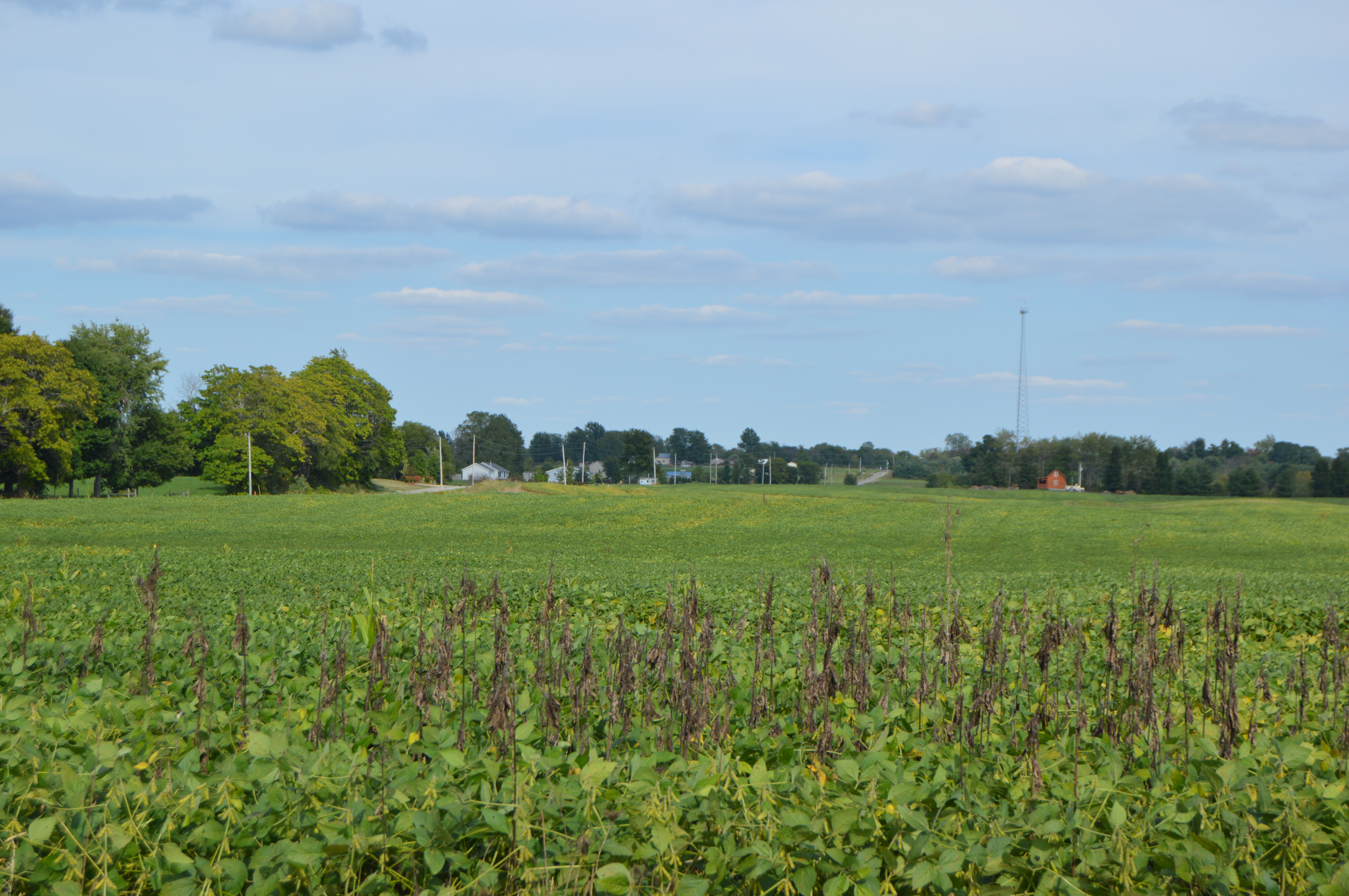 Looking eastward from Township Road 76 immediately south of the Township Road 59 intersection in Congress Township, Morrow County, Ohio, United States.